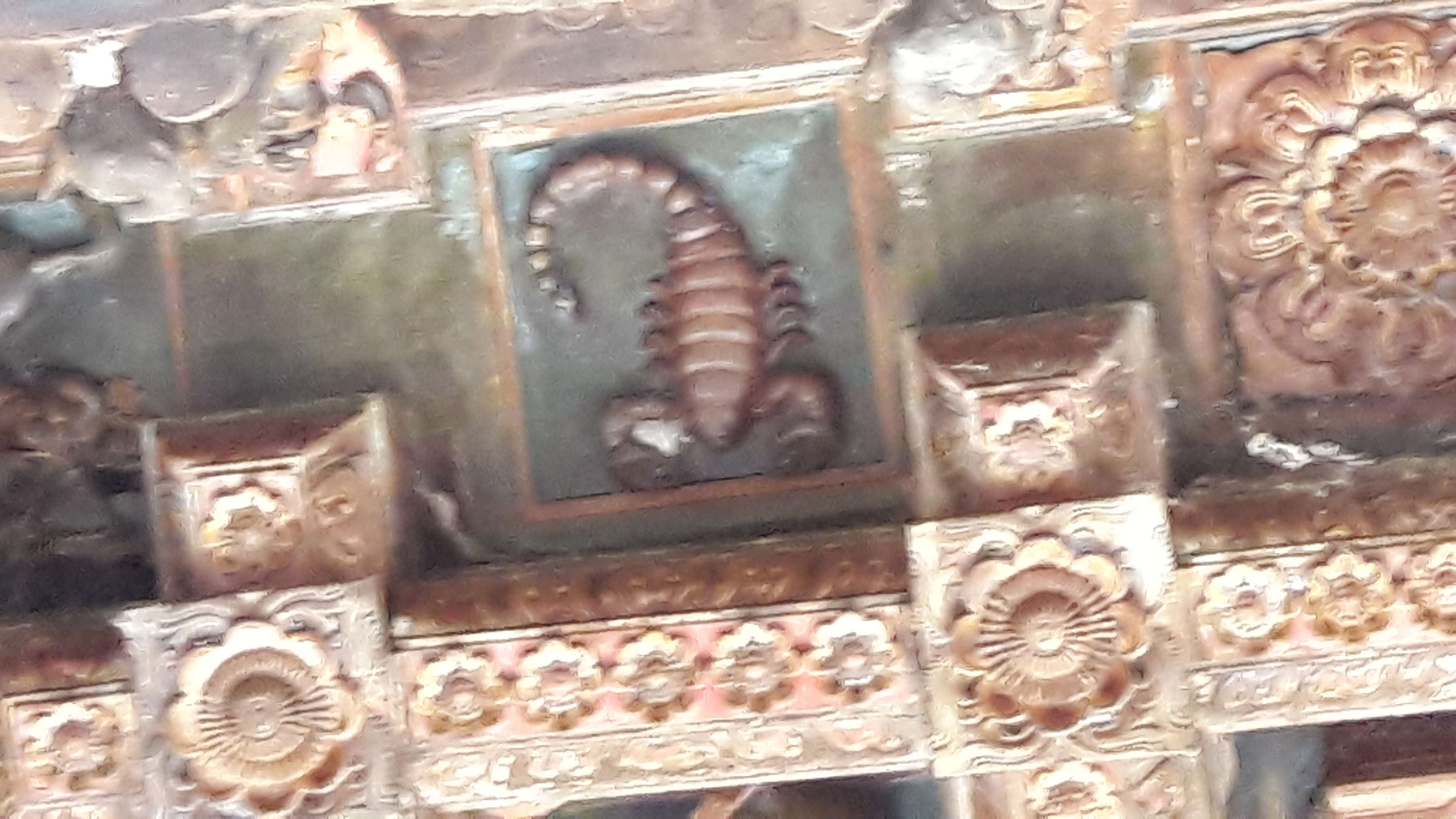 Daru sculpture at Madiyan Koolom Temple, Kasargode, Kerala, India